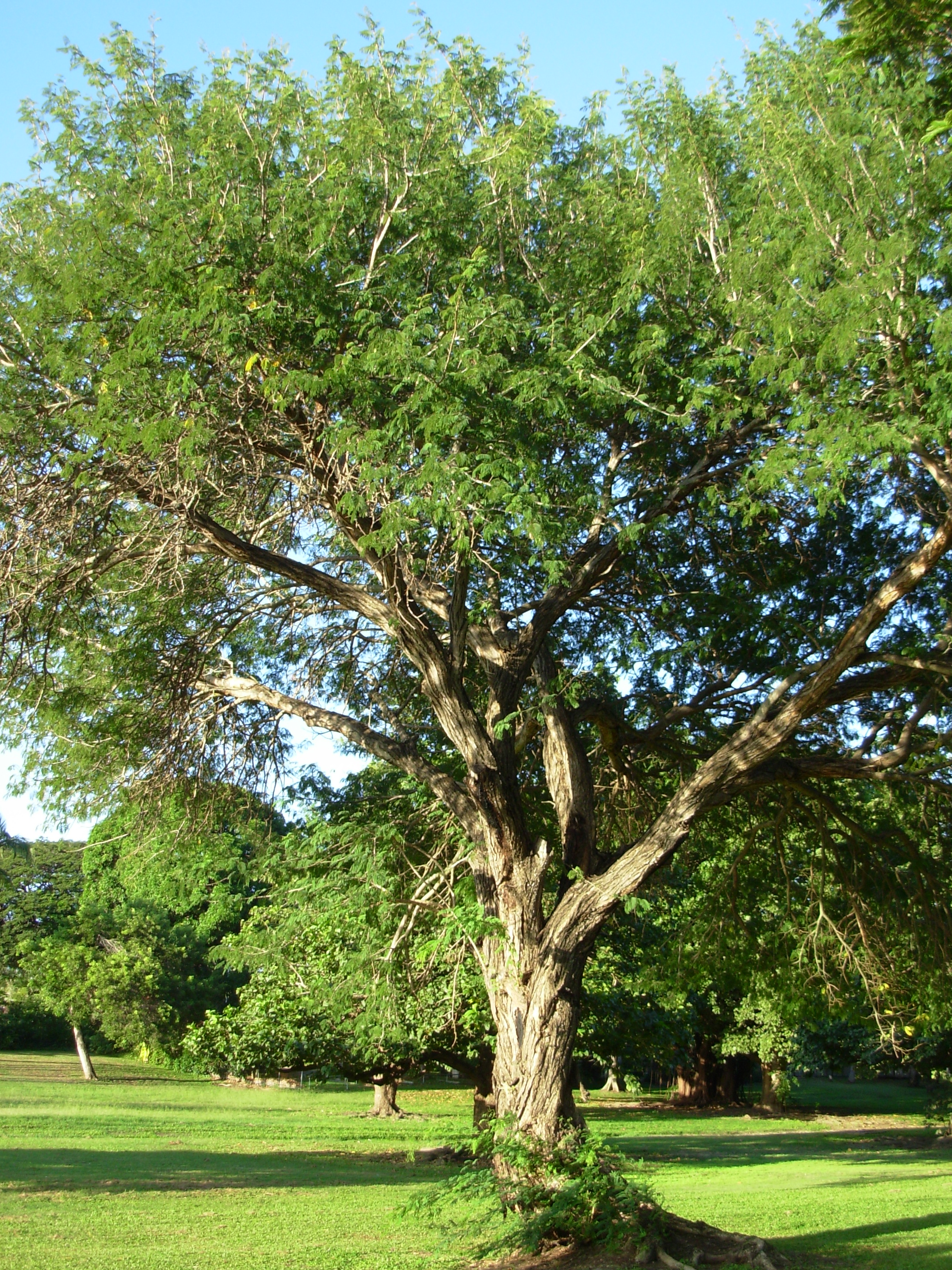 an Acacia catechu tree in Townsville Queensland